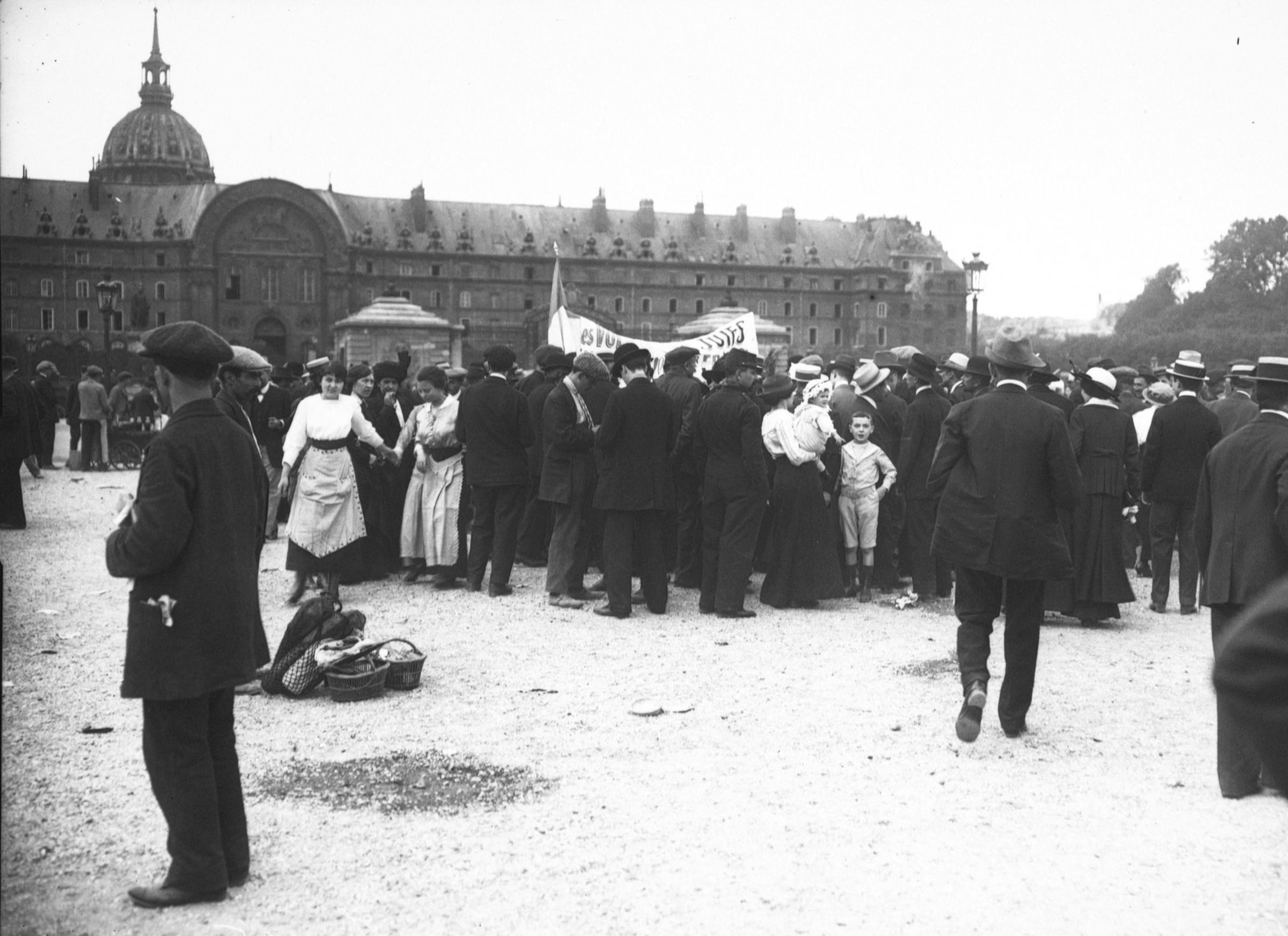 Jewish voluntaries in 1914, going at Les Invalides, Paris. Photo by Rol agency. Public domain, Gallica.